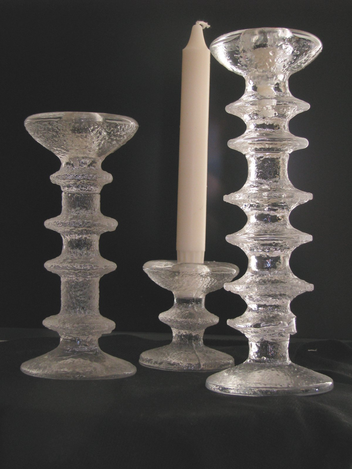 candlestick by Timo Sarpaneva